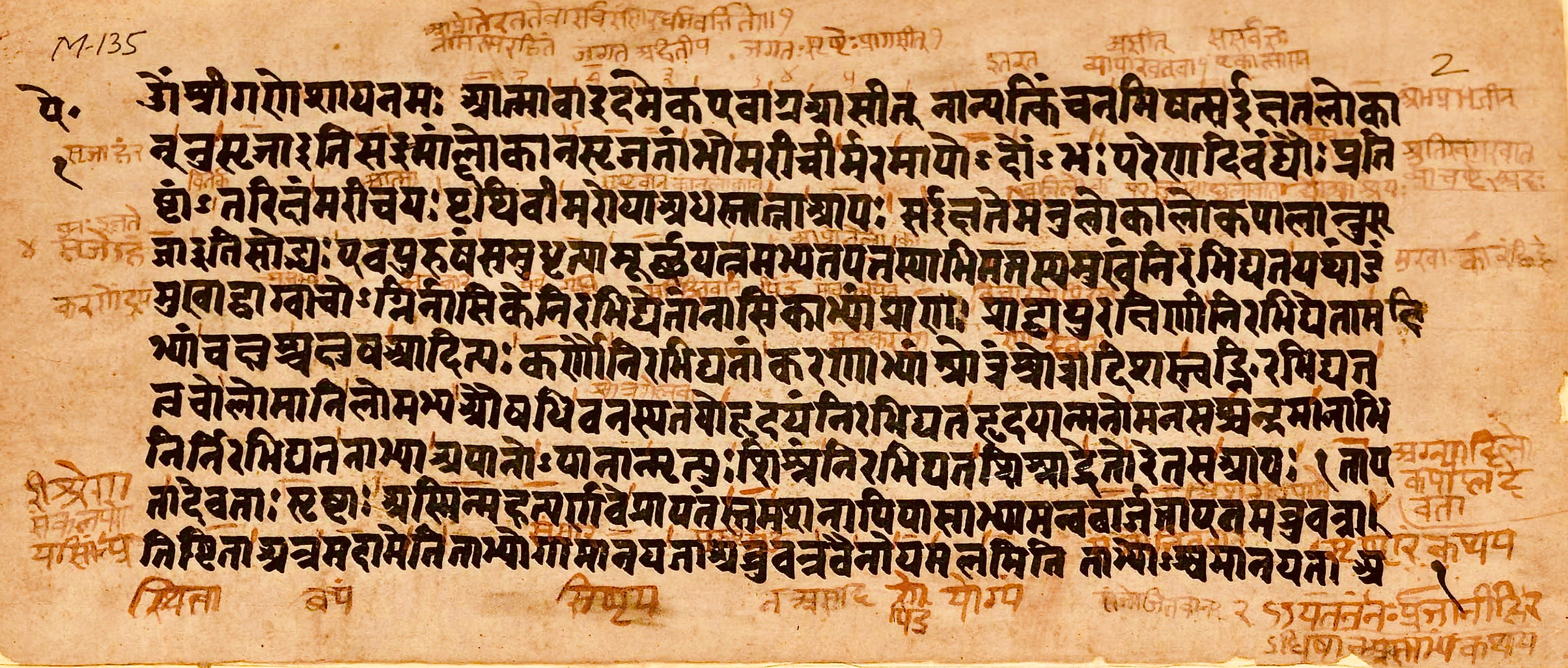 The early Upanishads (Upanisad, Upanisat) are scriptures of Hinduism. Variously dated by scholars to have been composed between 900 BCE to about 200 BCE, these texts are in Sanskrit language and embedded within a layer of the Vedas. They contain a mixture of philosophy and mystical speculations, many set in the form of dialogues or pedagogic style. Their central teachings include the concepts of Atman (soul, self) and Brahman (metaphysical reality). The above image is from a Aitareya Upanishad manuscript. It is the one of the oldest known Upanishads, dated to between 6th or 5th-century BCE (pre-Buddhist era). The text teaches that the world and man is the creation of the Atman (Soul, Universal Self); second, the theory that the Atman undergoes three-fold birth; third, that Consciousness is the essence of Atman. These manuscripts are preserved at the Lalchand Research Library, Ancient Indian Manuscript Collection, DAV College Digital Library Initiative, Chandigarh India, in association with SP Lohia and Indorama Charitable Trust. The texts are over 2000 years old, the re-copying into this particular manuscript is dated to an 1865 CE (1922 V.S. or Vikram Samvat) reproduction. The manuscript shows decay and damage on the sides and its edges. Language: Sanskrit Script: Devanagari Script style: pre-14th century (Northern / Western) The photo above is of a 2D artwork of a text that is over 2,500 years old, from a manuscript that was produced decades before 1923. Therefore Wikimedia Commons PD-Art licensing guidelines apply. Any rights I have as a photographer is herewith donated to wikimedia commons under CC 4.0 license.